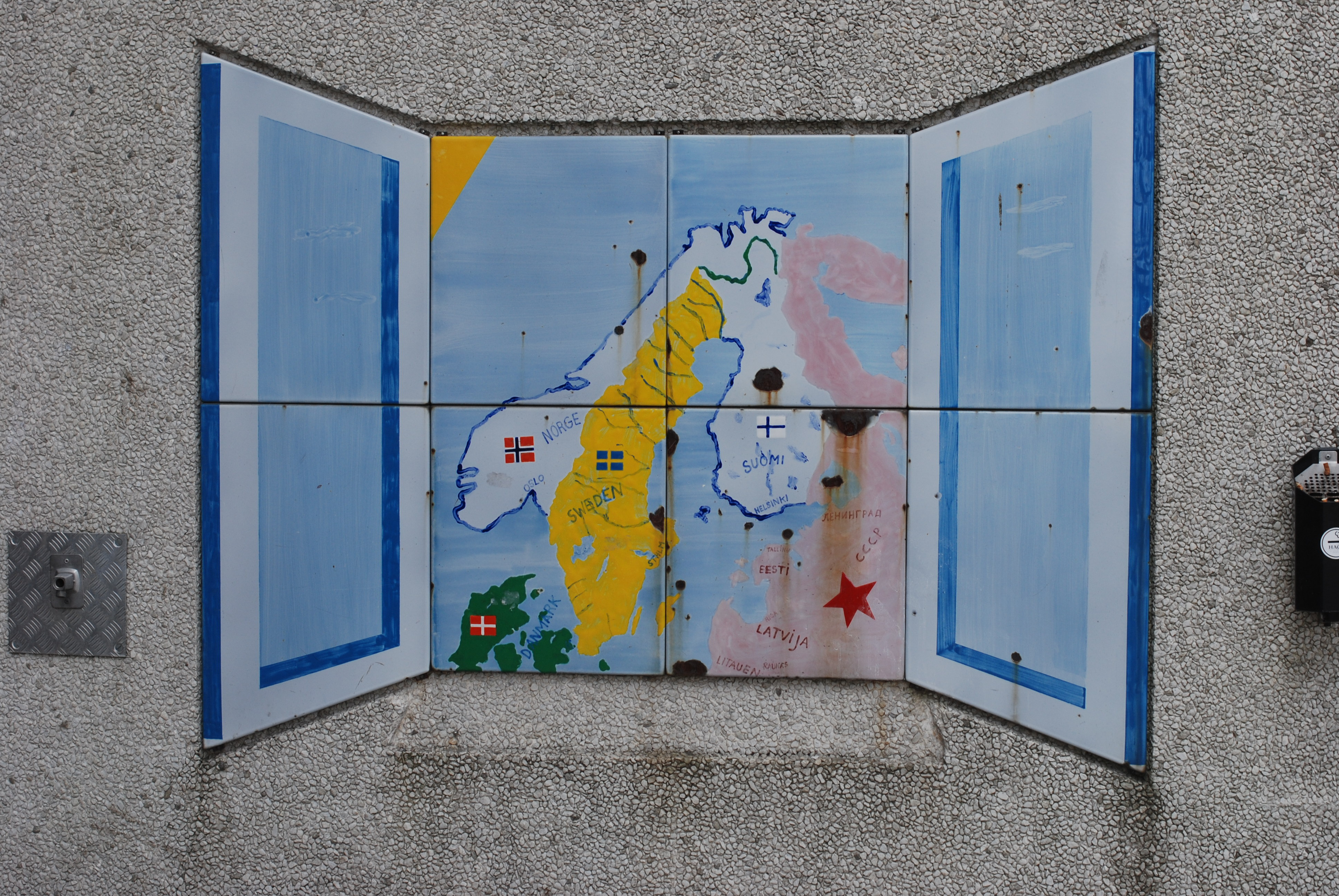 Åke Pallarp´s Emaljtavla över ett färgglatt Sverige (Enamel painting of a colourful Sweden), Östberga, Stockholm, Sweden